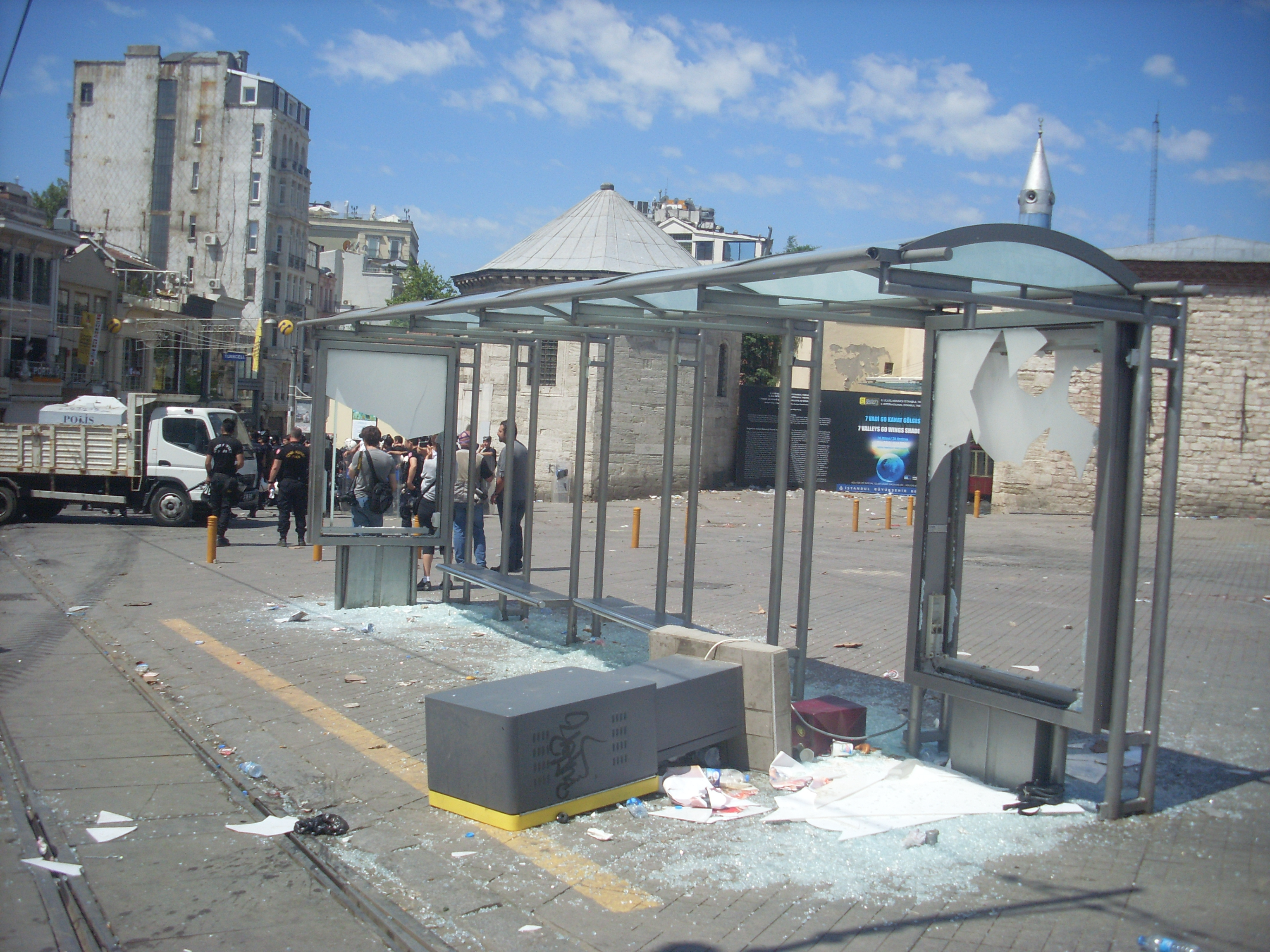 2013 Taksim Gezi Park protests P7, Nostalgic tram stop with broken windows on Taksim Square